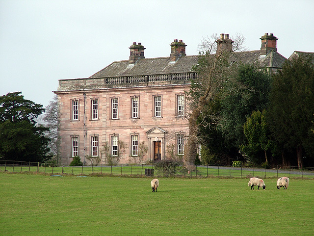 Dalemain House Photograph taken on the 19th January 2007